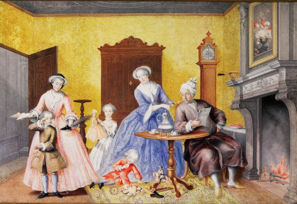 From left to right: Archduchess Marie-Christine, archduke Ferdinand, archduchess Marie-Antoinette (with her favourite doll), archduke Maximilian (under the table he is eating cakes), Empress Maria Theresa of Austria and Francis I, Holy Roman Emperor.